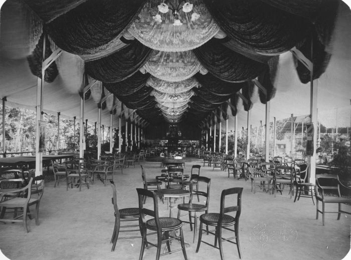 Party place of the Exhibition at Batavia held in 1893